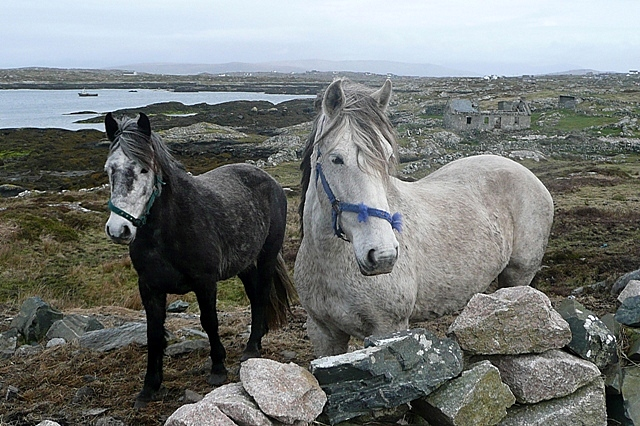 Connemara ponies at Leitir Mealláin (Lettermullan) Two typical Connemara ponies in their natural landscape.